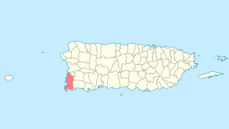 Municipal locator of Puerto Rico